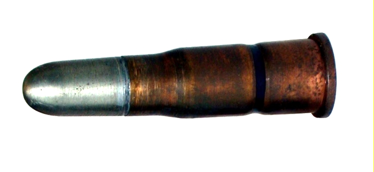 Vetterli dummy cartridge